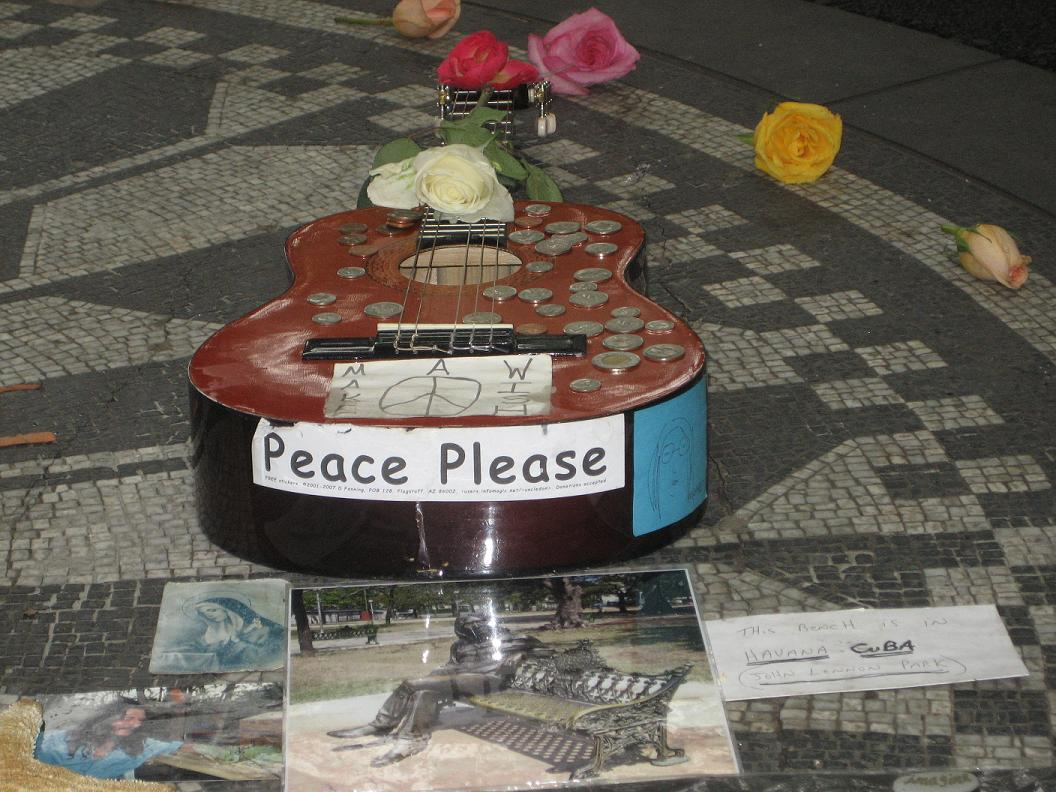 A guitar placed on the mosaic